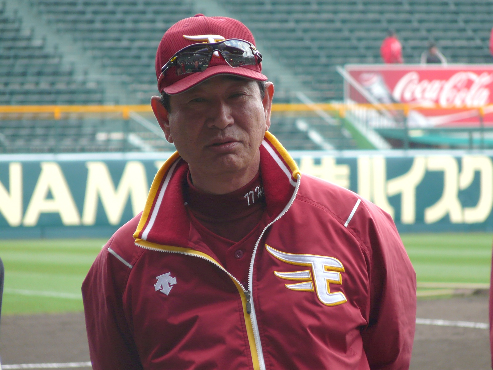 Senichi Hoshino, manager of the Tohoku Rakuten Golden Eagles, at Hanshin Koshien Stadium.